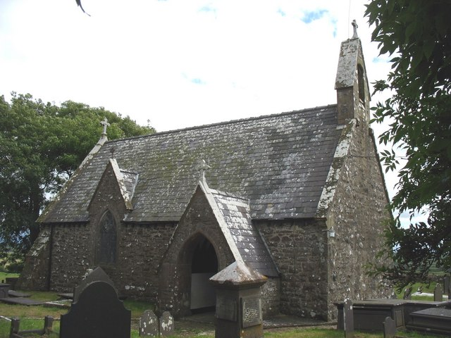 Eglwys Cynfarwy Sant, Llechcynfarwy